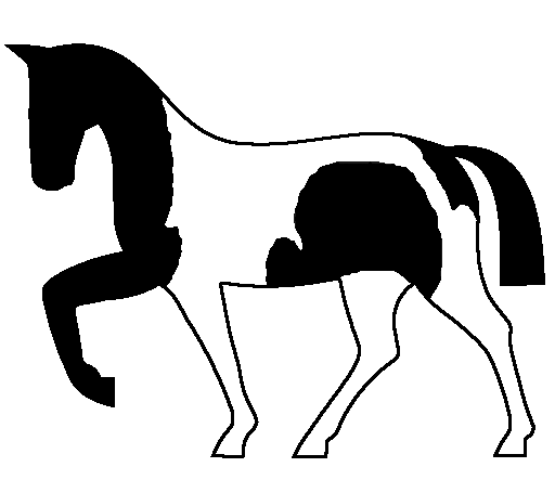 Horse colour pattern icon.